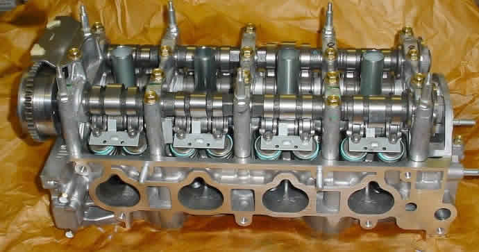 Image of a cylinder head from a Honda K20 showing components of the i-VTEC system.